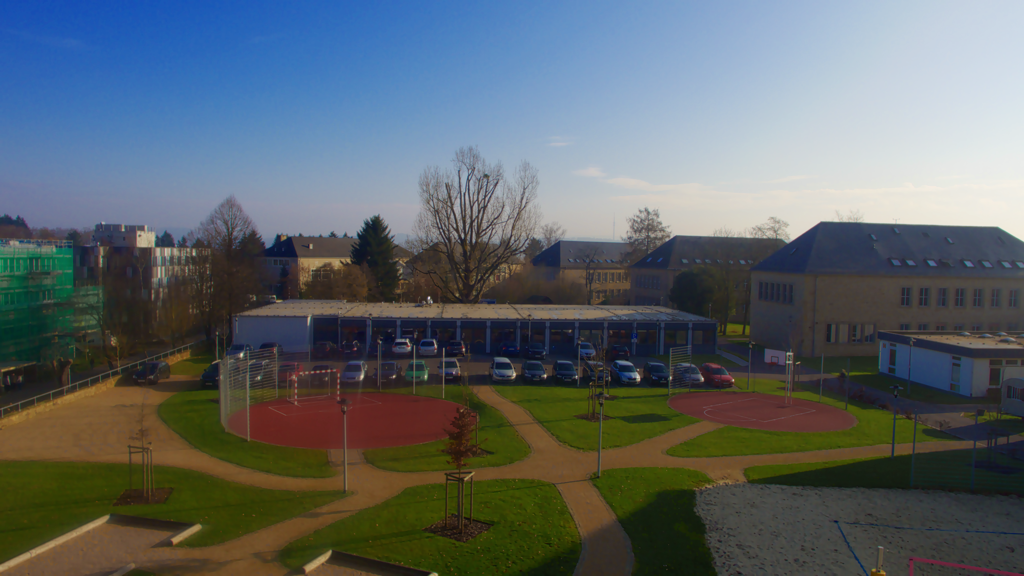 Main Campus Schneidershof. Some nazi buildings on the right